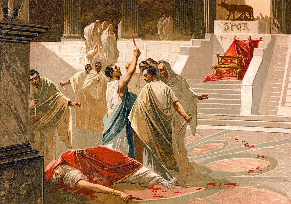 Information on this painting can be found at First published for Historia de Europa.